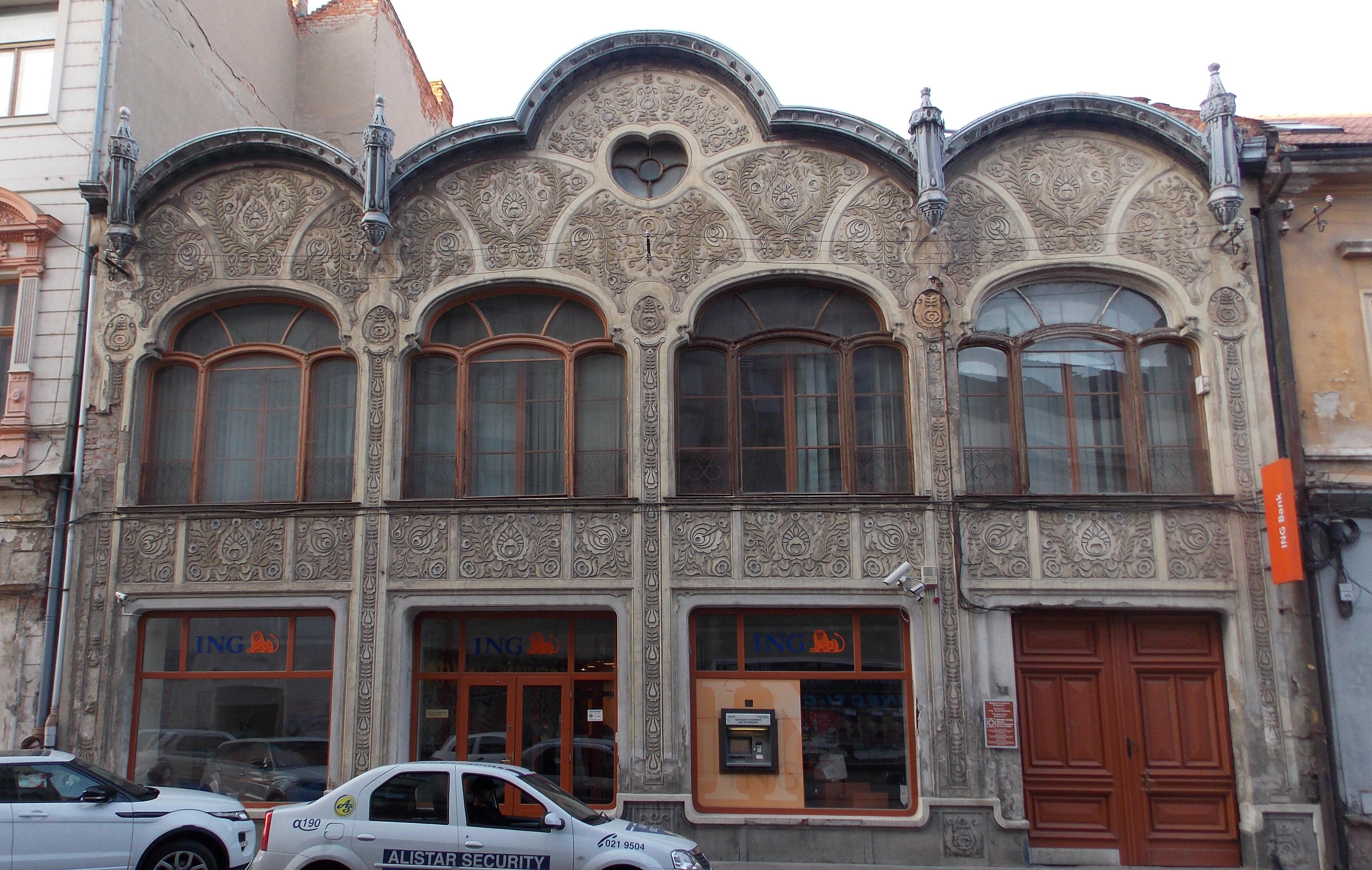 Deutsch House - Oradea